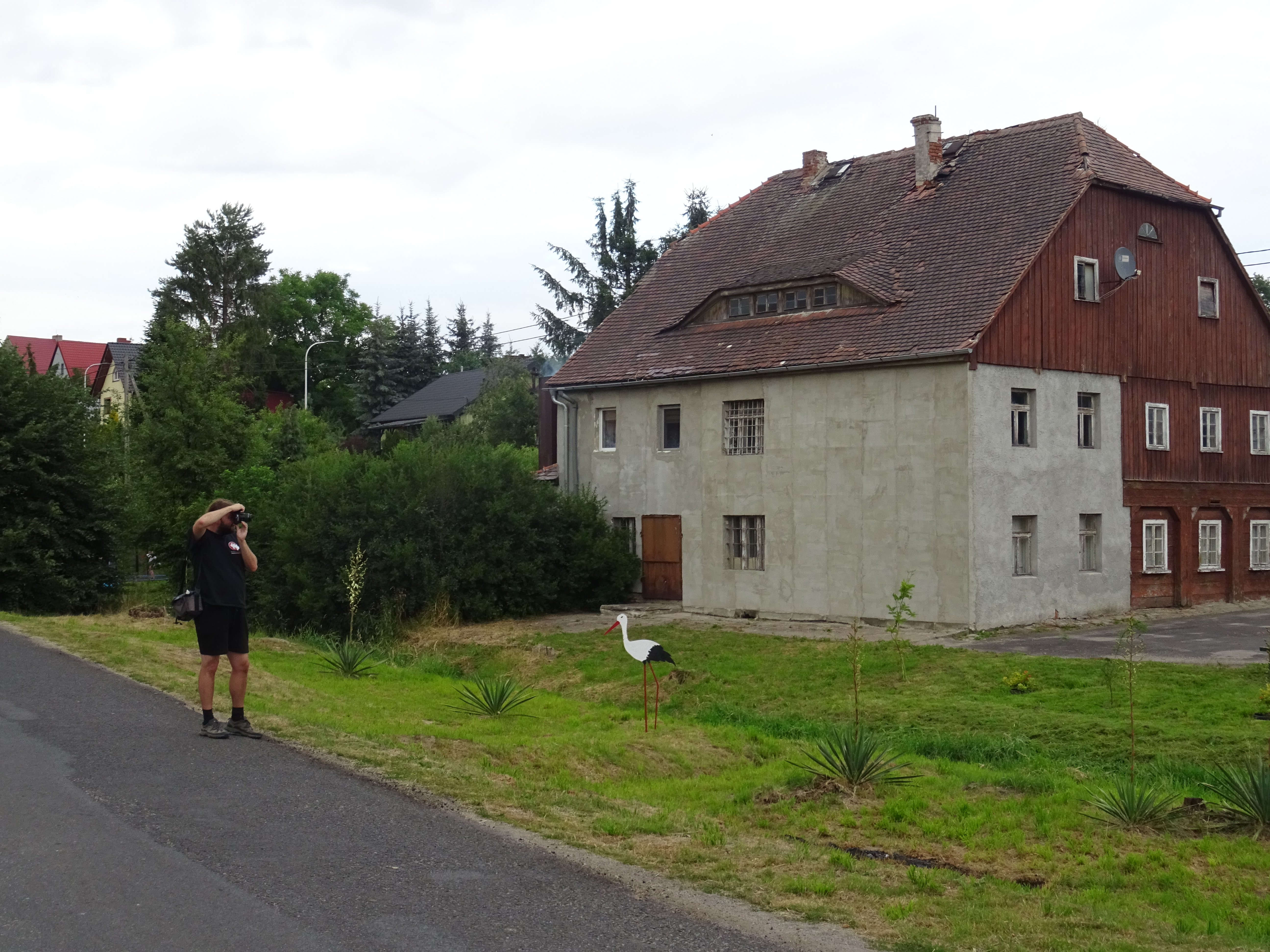 This photograph was created as a part of Wikiexpedition Lower Silesia, a project supported by Wikimedia Poland grant.